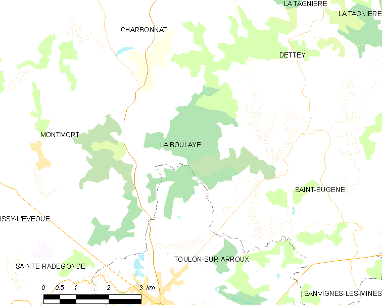 Map of French municipality